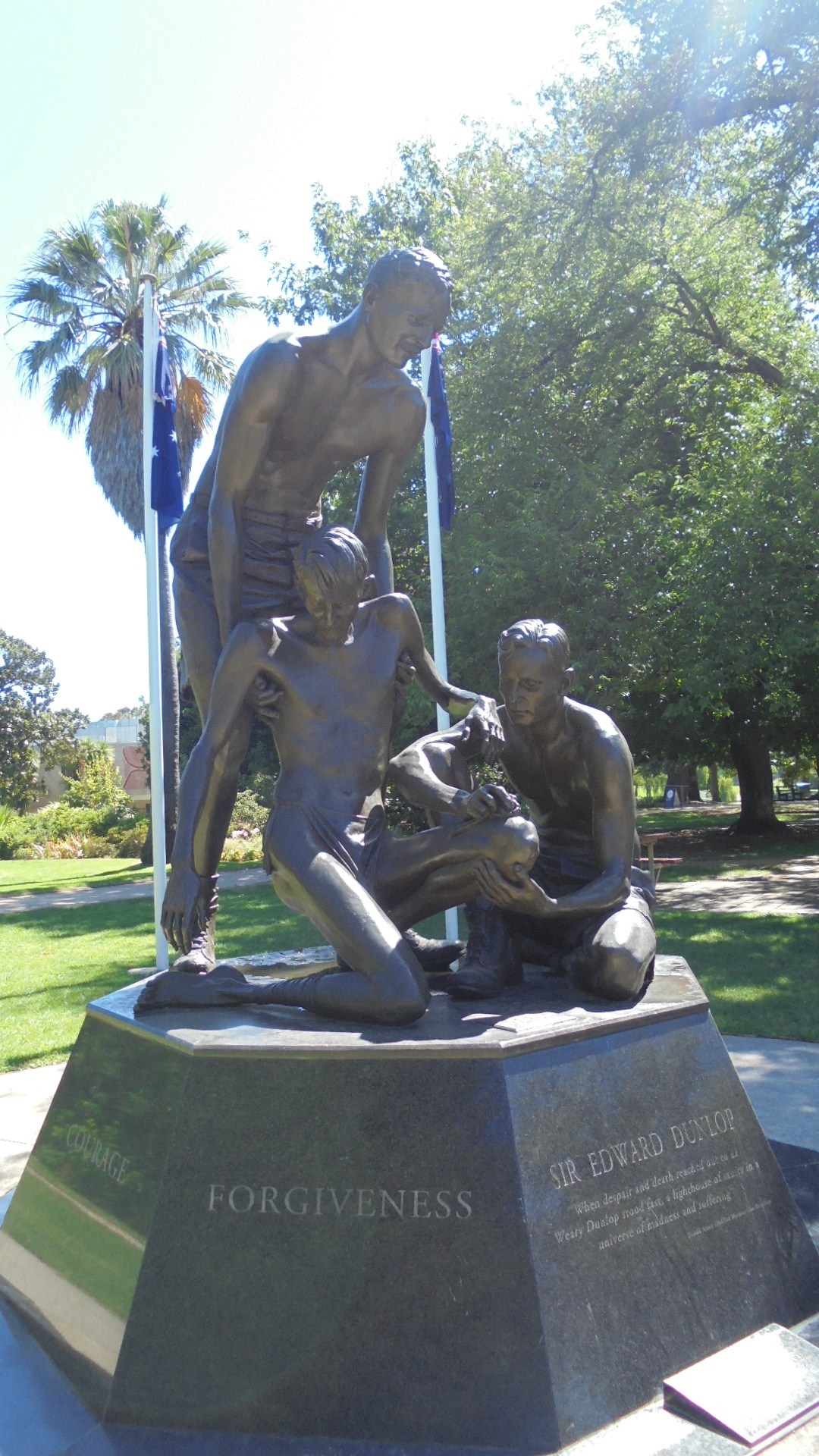 Sir Edward Dunlop Memorial at Benalla botanic gardens